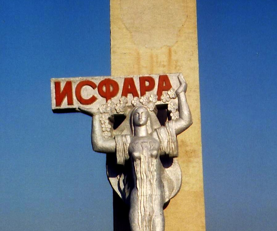 Cropped from a photograph on the Tajik Wikipedia. Исфара